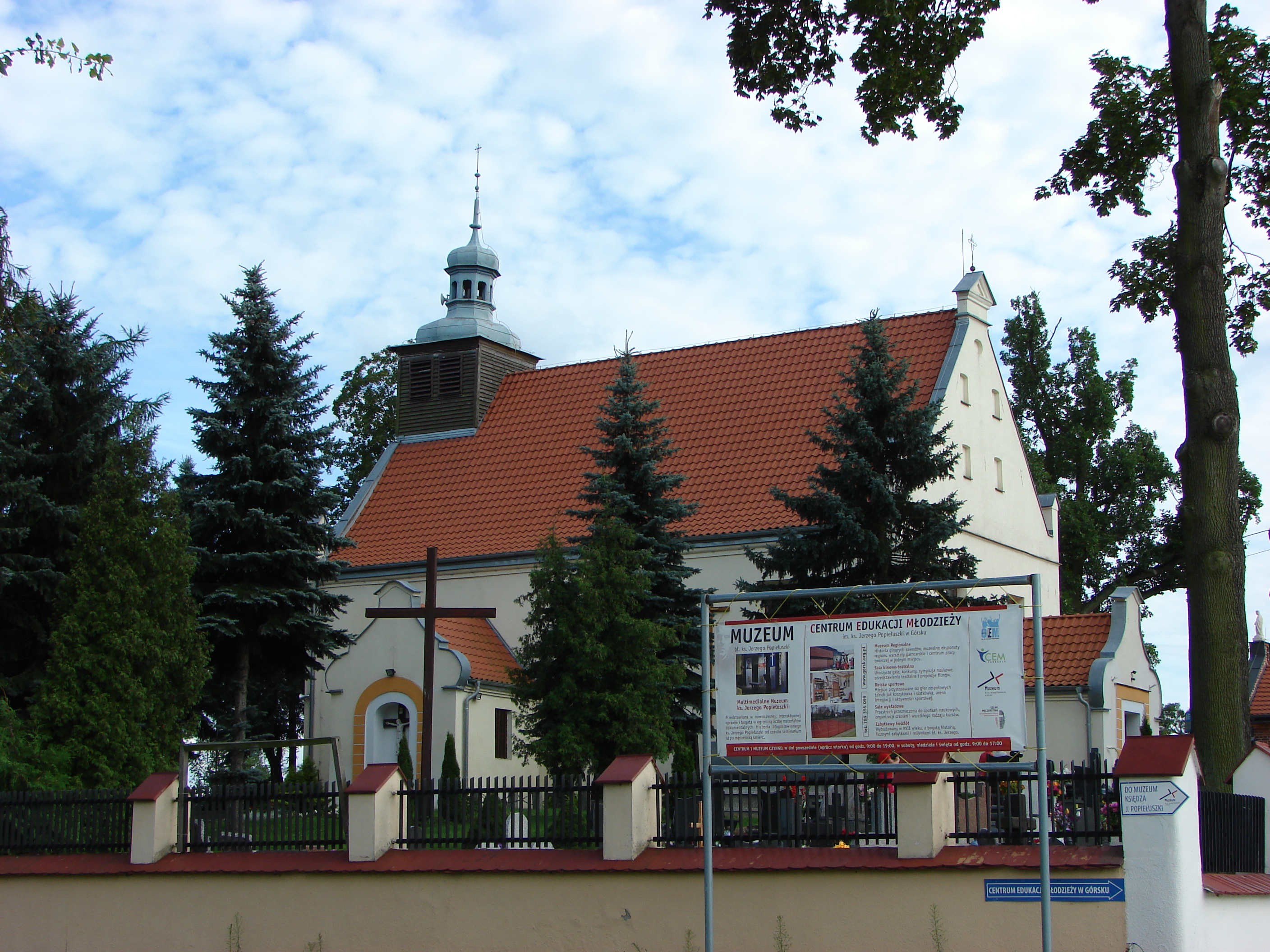 Górsk, Gmina Zławieś Wielka, Parish church